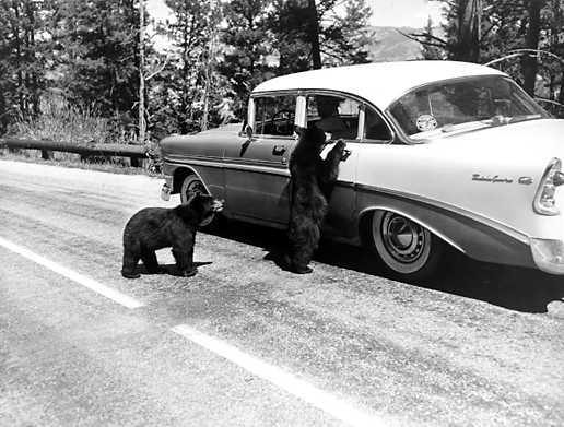 This article or image contains material based on a work of a National Park Service employee, created during the course of the person's official duties. As a work of the U.S. federal government, such work is in the public domain. See the NPS website ( and NPS copyright policy ( for more information. Source[1]